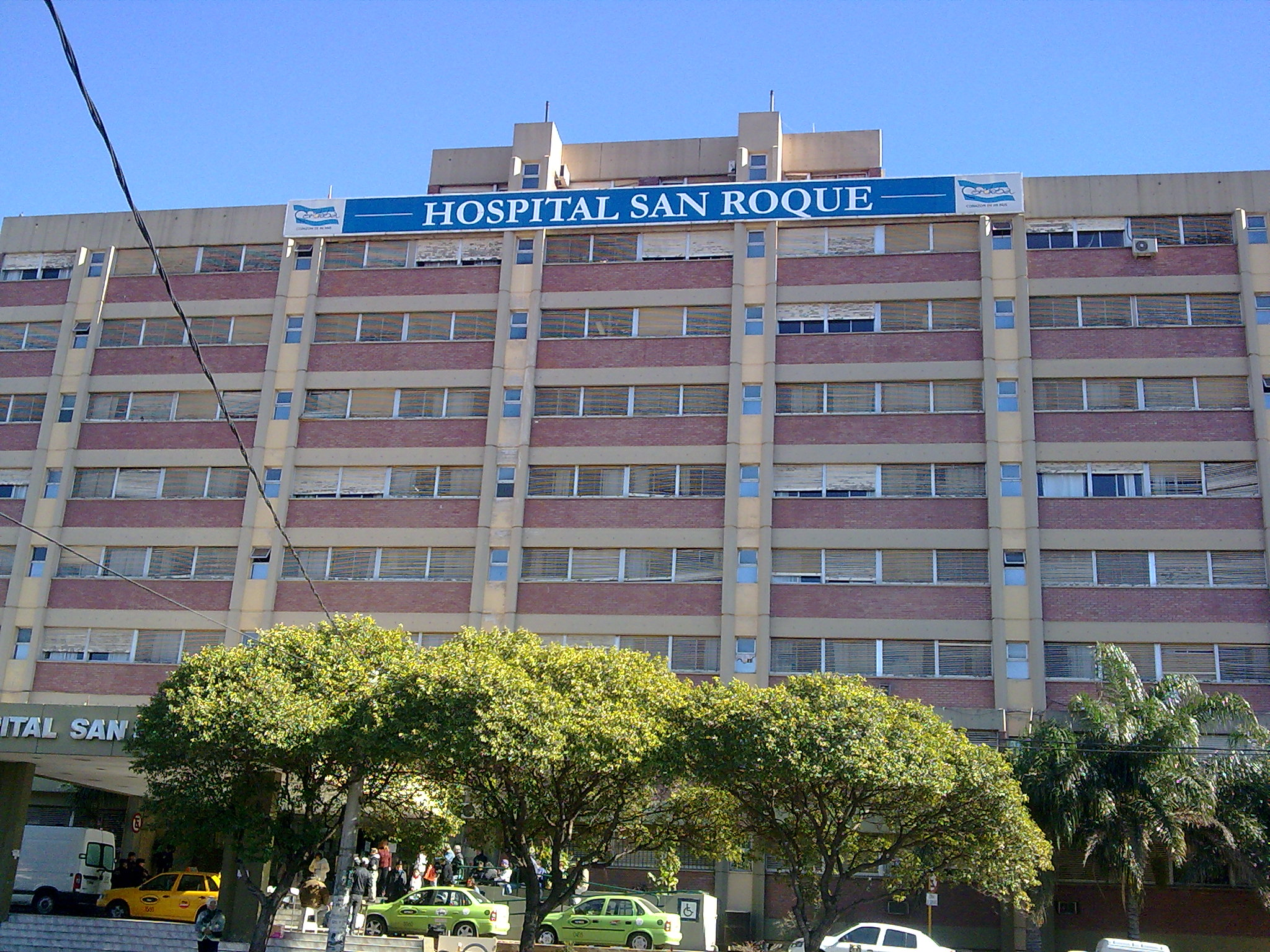 San Roque hospital, one of the most importants of Cordoba, Argentina.